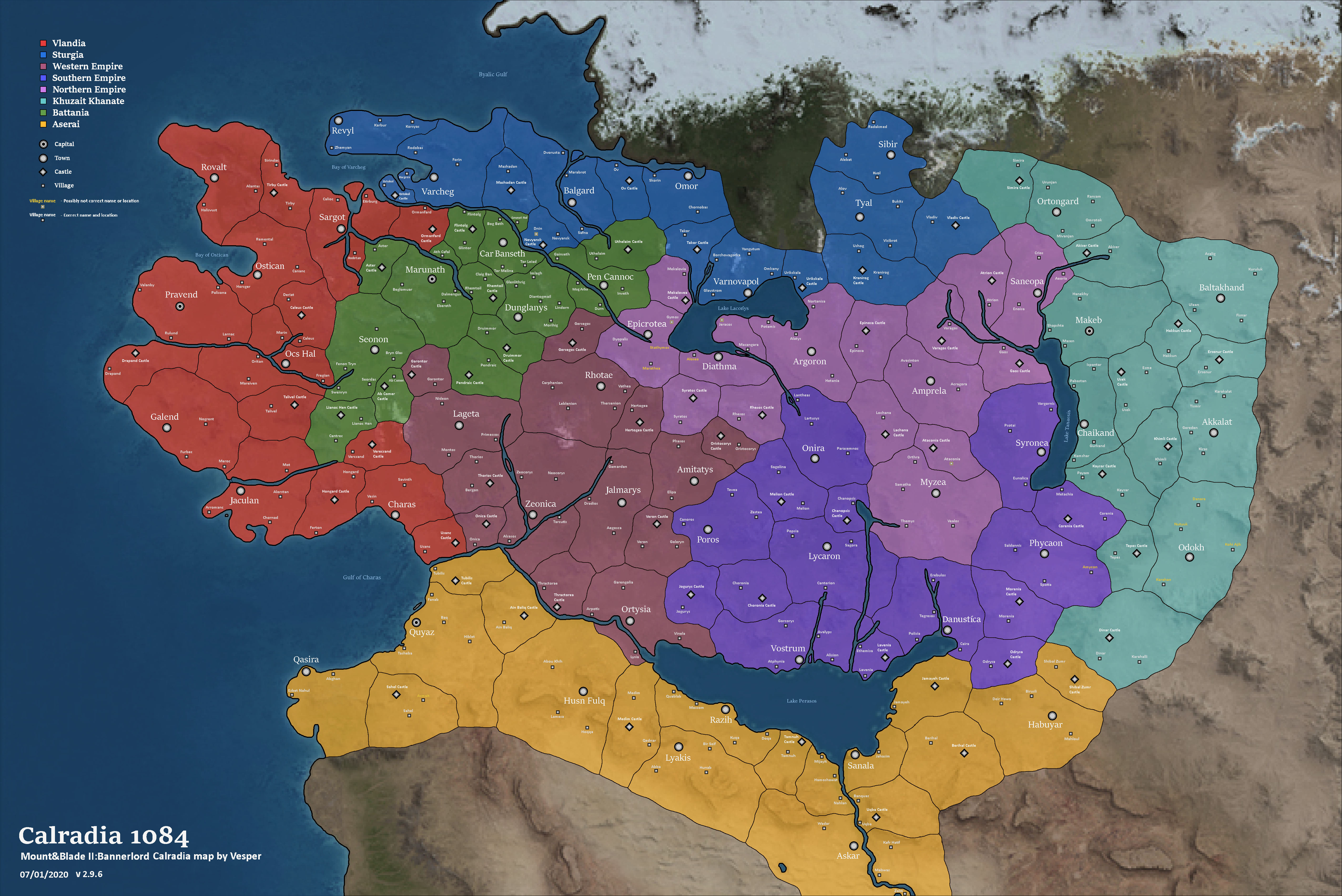 The political divide of the fictional continent Calradia in the Mount & Blade series during the Bannerlord period.